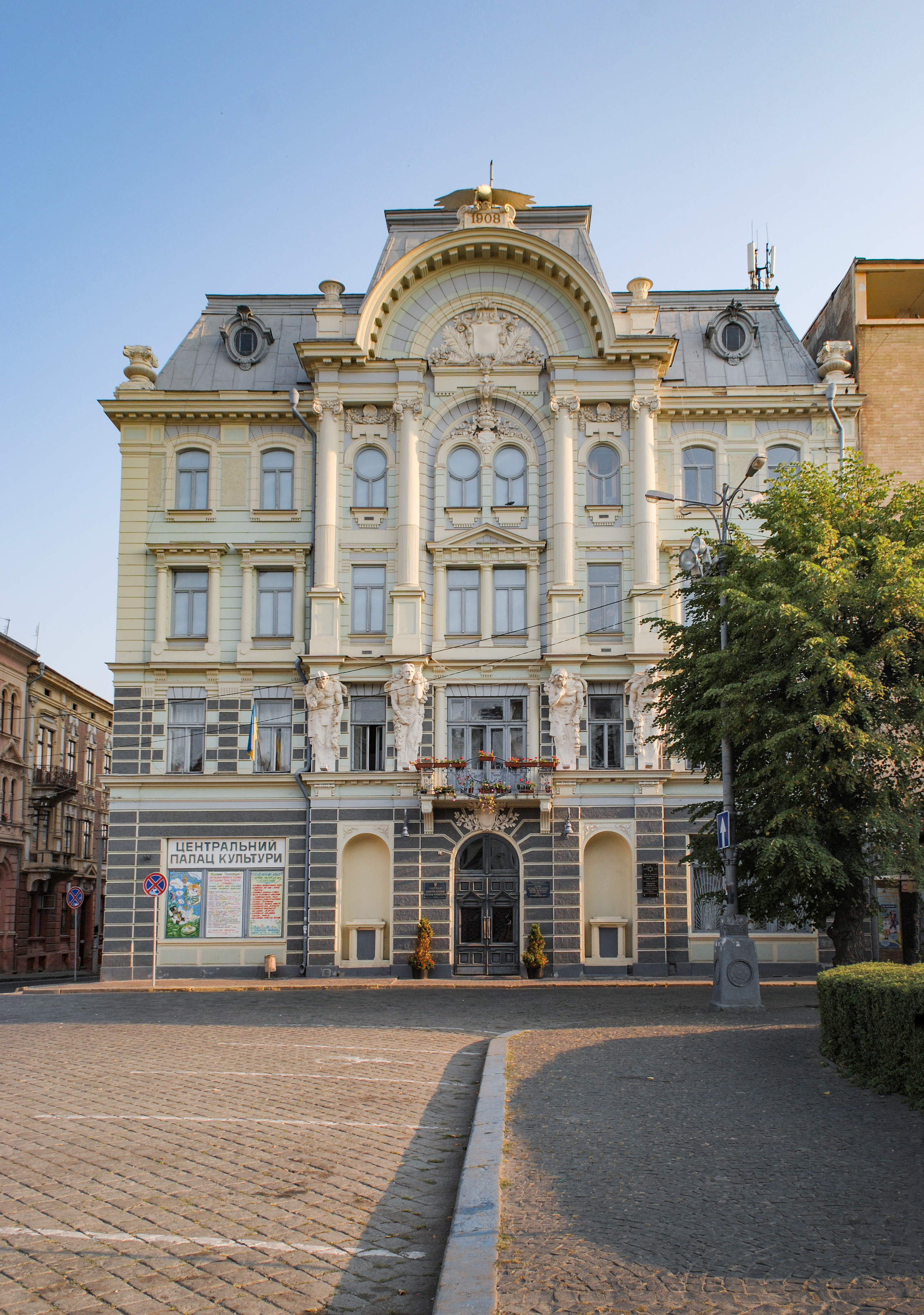 Jewish People’s House, Chernivtsi, Ukraine